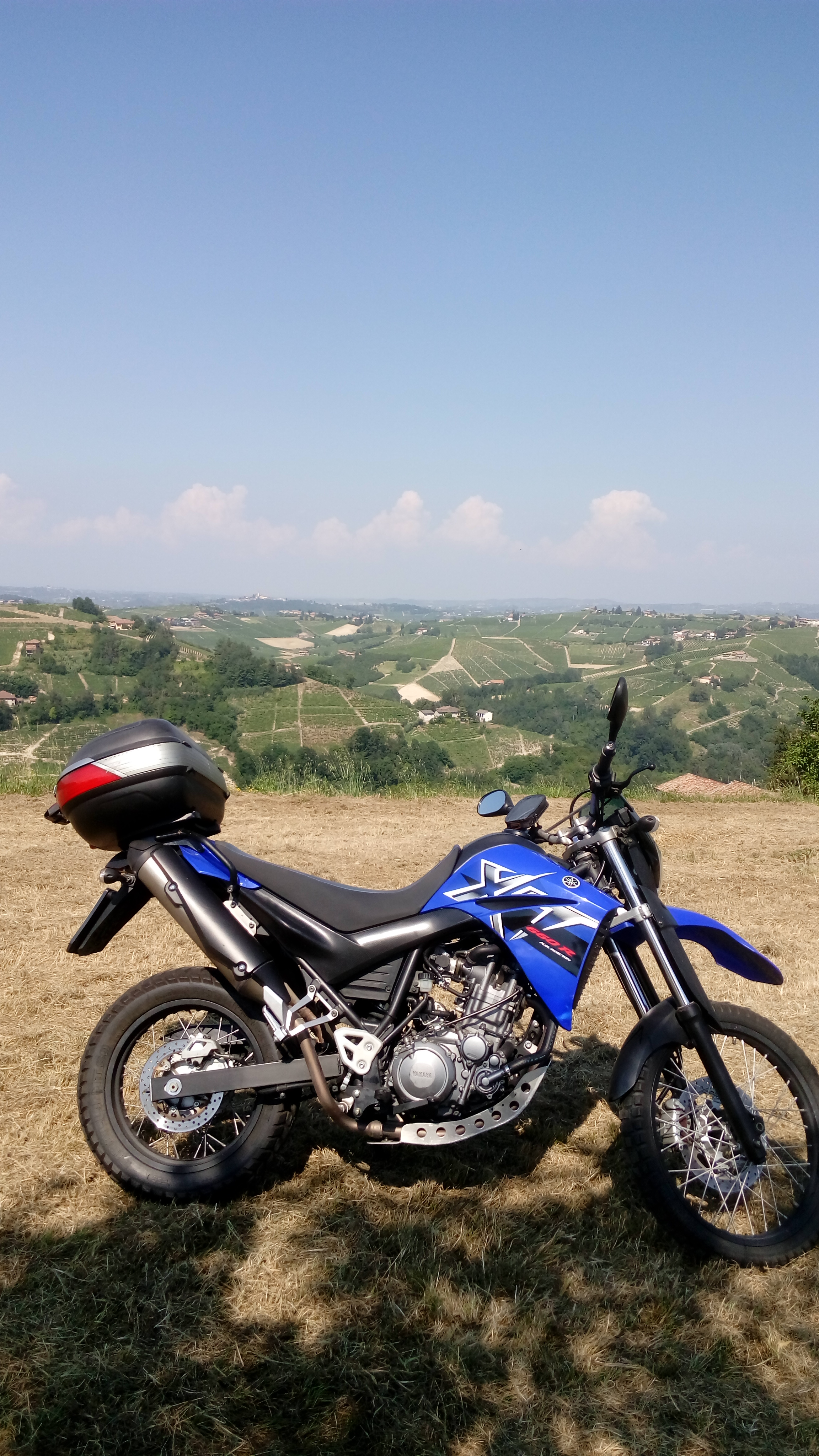 shot of Yamaha XT 660 R taken in the Monferrato area, Piedmont, Italy